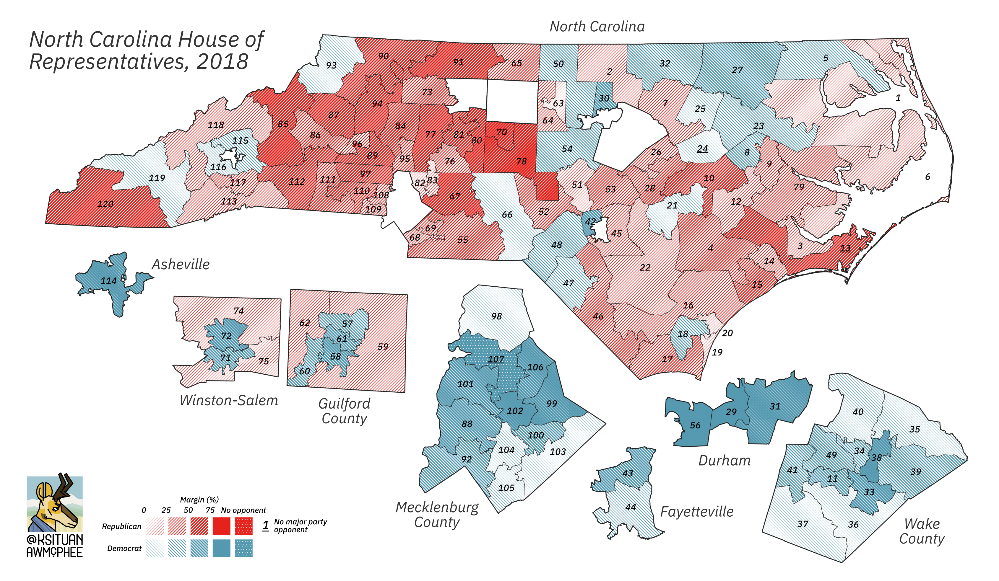 A series of state legislative election maps, created from open data during the summer of 2020. Their common visual style is designed to accomodate all of the unique features of American democracy. They were created using QGIS and Inkscape, two free programs. Please use freely and contact the author with any inquiries about visualizing election data with open-source tools.